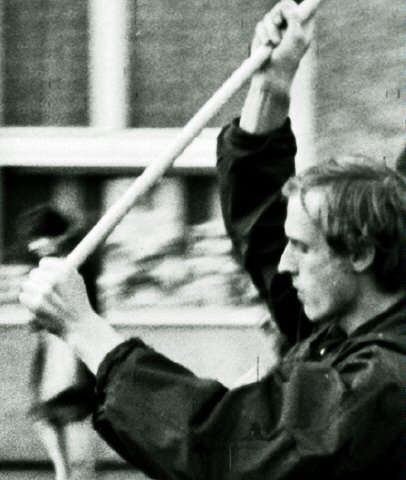 Photo by R. W. Rynerson, clipped from my personal website, shows 15 Nov 69 anti-war demonstrator in West Berlin straining under weight of carrying Vietnamese flag.